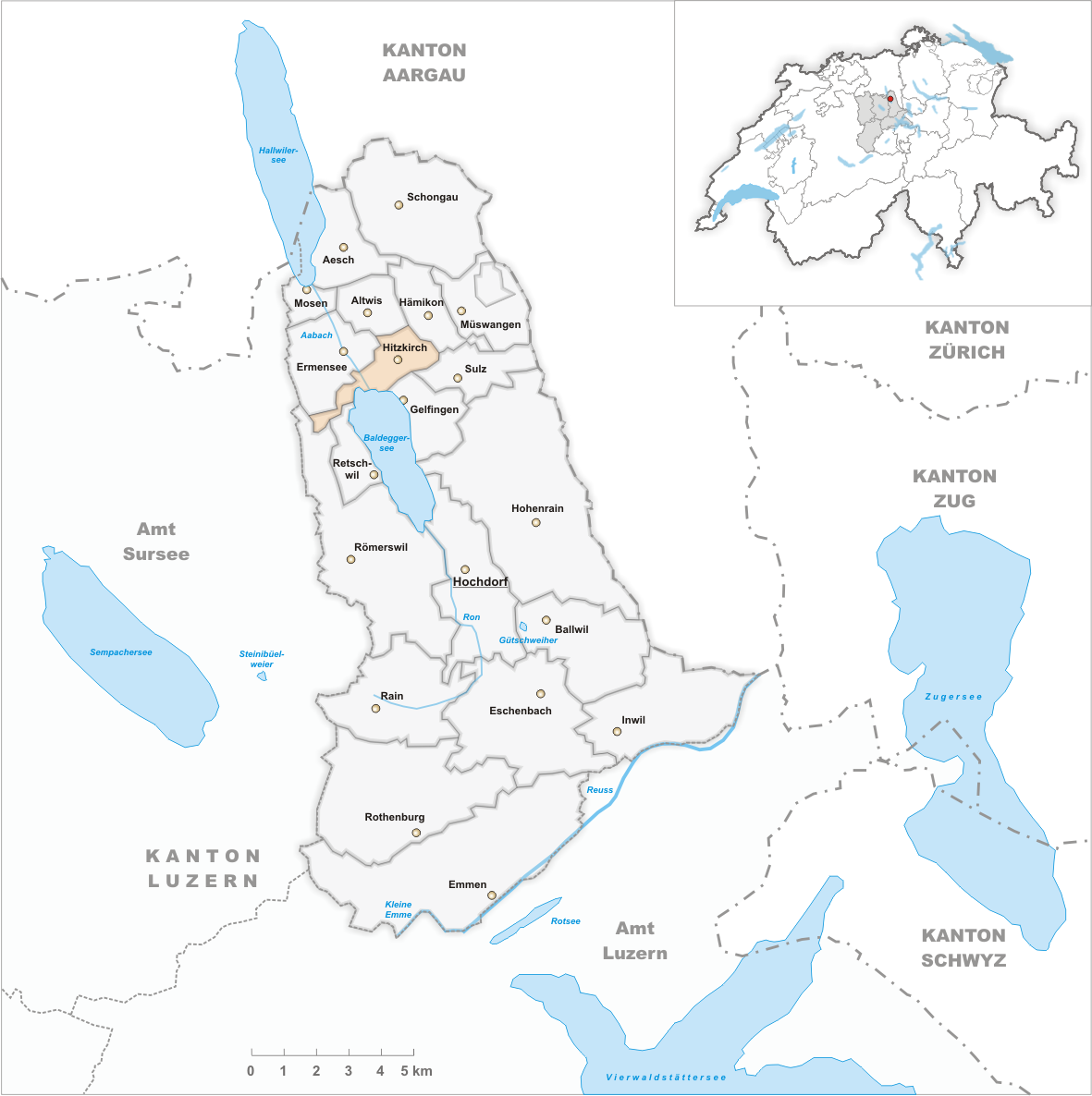 Municipality Hitzkirch